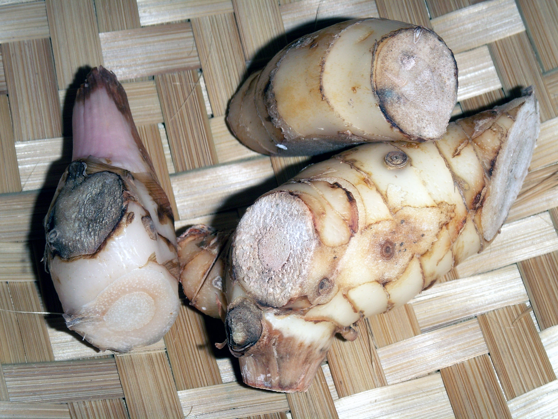 Galgant / Galagant / Thai Ginger (Alpinia galanga), pieces Own work, April 8, 2006 License: Copyleft / Multi-license GFDL & CC-BY-SA 2.5 or previous